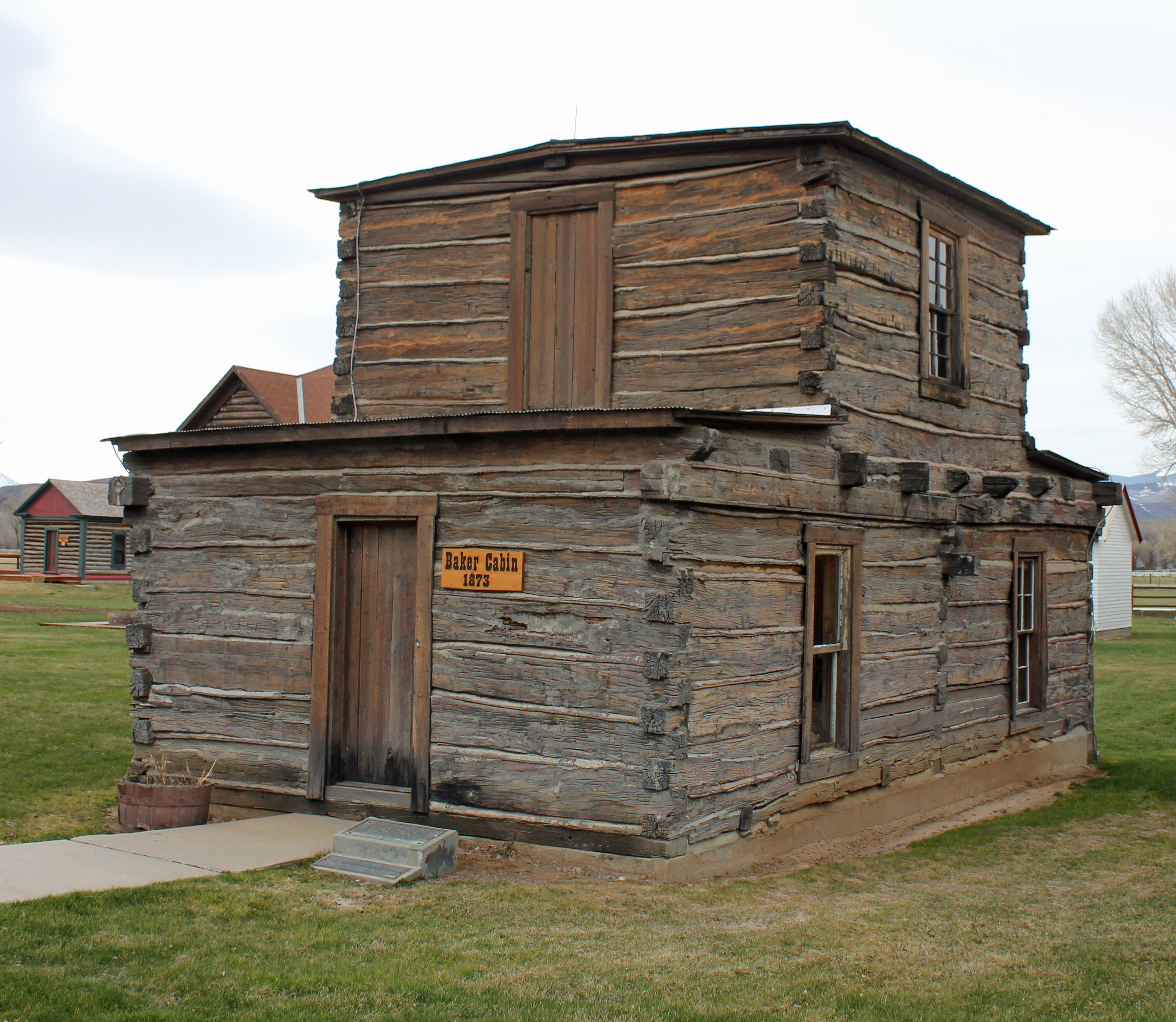 The Jim Baker Cabin, located on the grounds of the Little Snake River Museum in Savery, Wyoming. The cabin is listed on the National Register of Historic Places. The museum is located on Carbon County Road 561 just north of Wyoming State Highway 70.